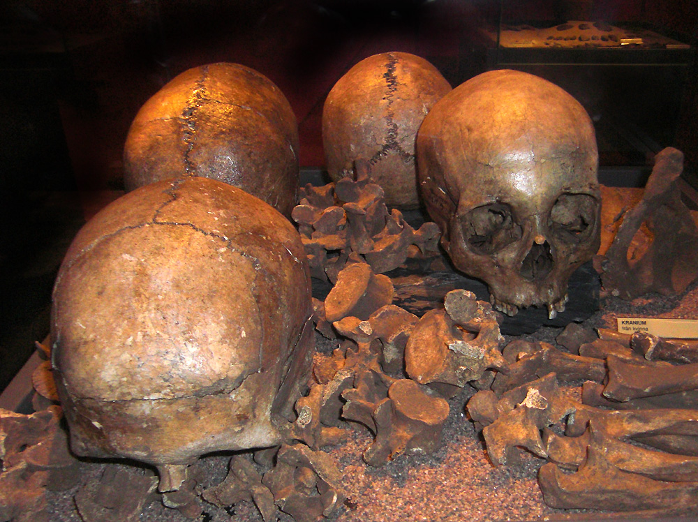 Four skulls from the Slutarp Dolmen is displayed at Falbygdens museum in Falköping, Västergötland, Sweden. The skulls are radiocarbon-dated to 3350-3100 BC and is thus belonging to the Middle Neolithic. The Slutarp Dolmen is a megalithic tomb situated outside of Slutarp 10 km south of Falköping. The tomb was excavated in 1910.